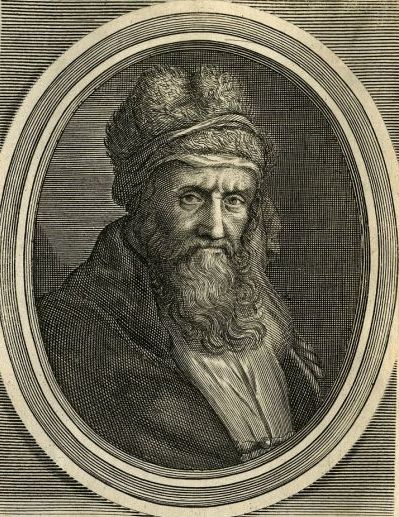 Diogenes Laërtius, ancient Greek writer